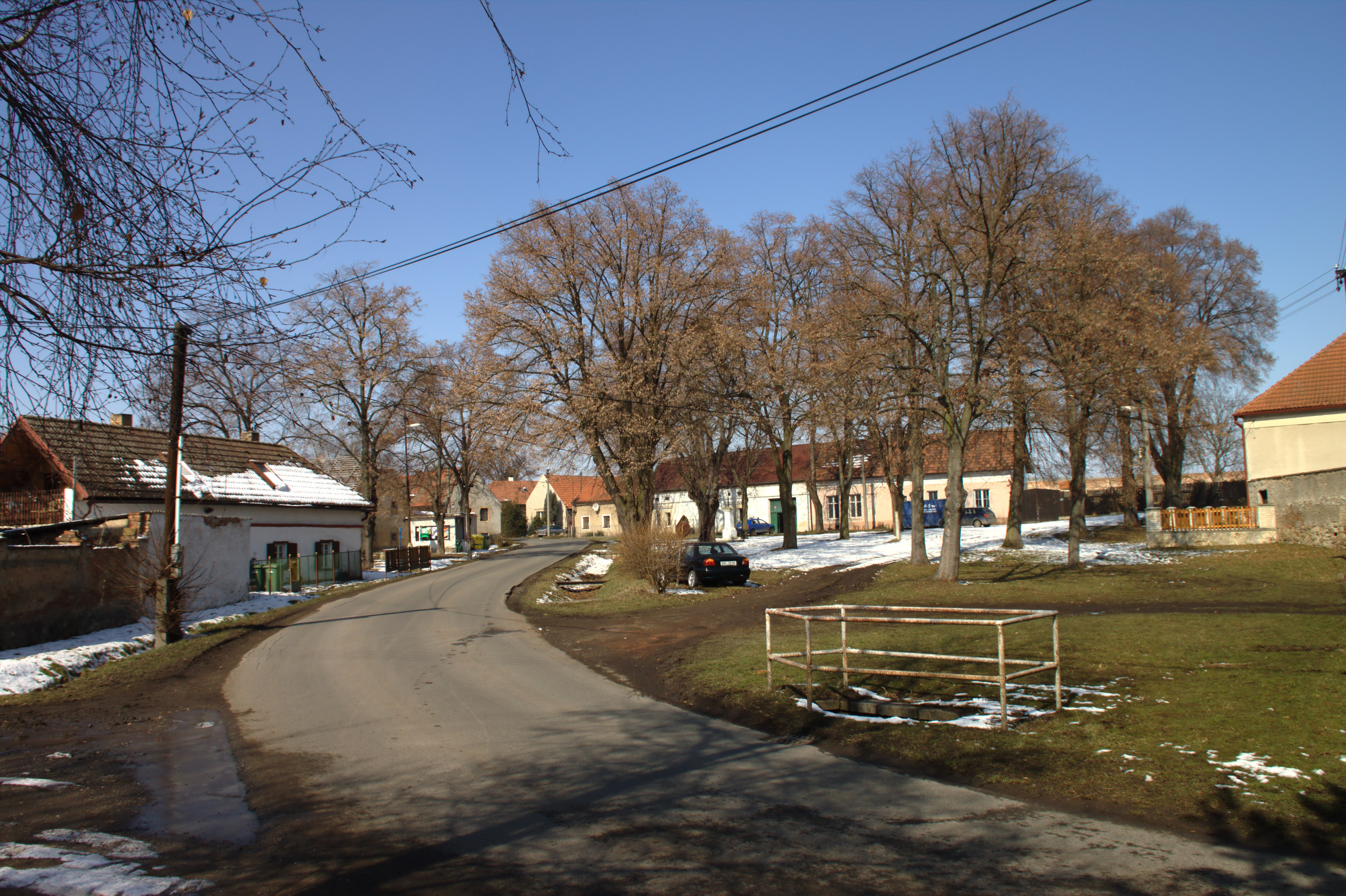 Central part of the town of Vyšínek, part of Zlonice, Kladno District